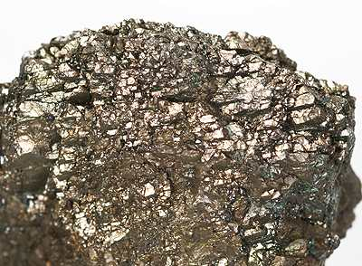 Pentlandite Locality: Sudbury, Sudbury District, Ontario, Canada (Locality at ) Size: small cabinet, 7.2 x 5.9 x 3.1 cm Pentlandite This is a rich ore sample, containing a mixture of several sulfide minerals: pentlandite, chalcopyrite, and pyrrhotite. Self-collected by curator Sam Gordon, in 1932! The label probably is in his handwriting